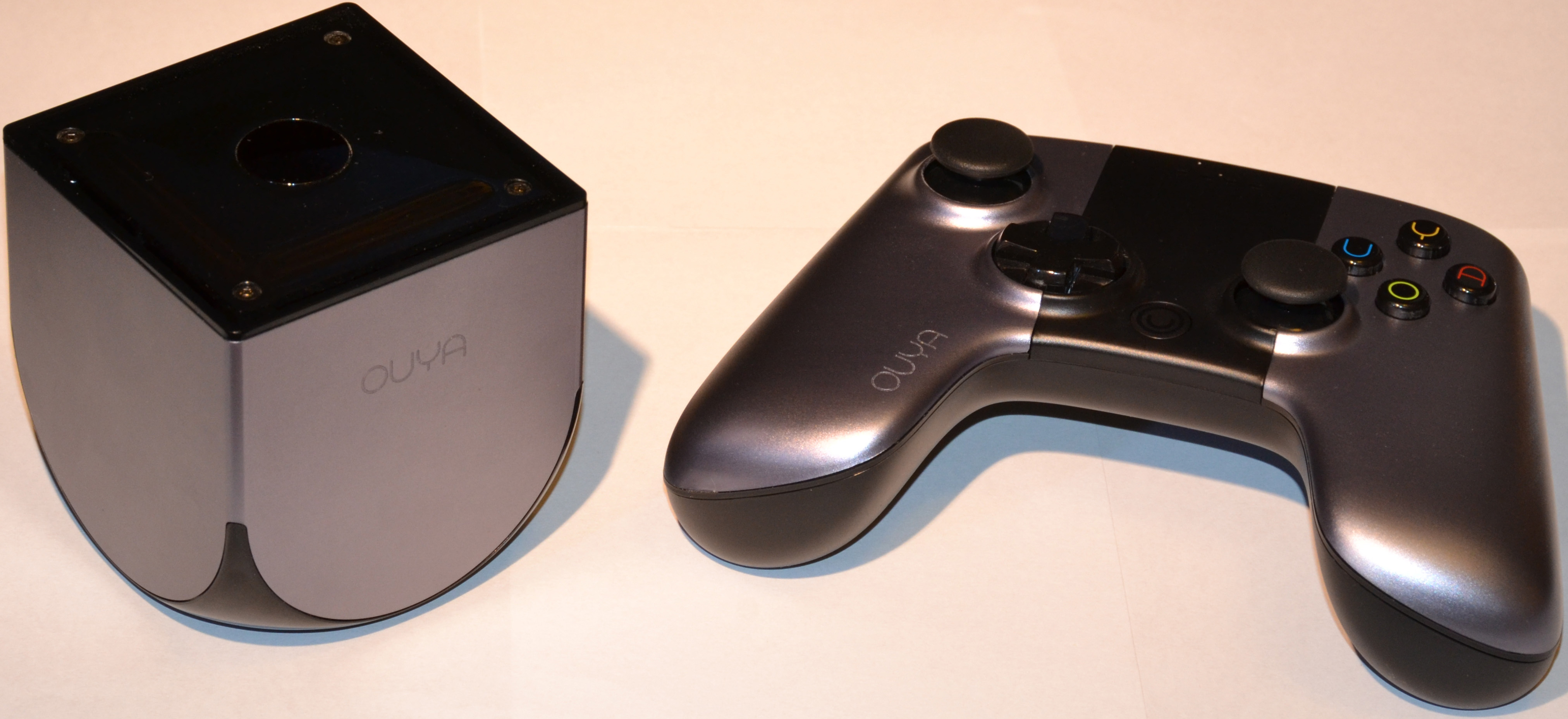 Android based gaming system. First public available open software video game system.